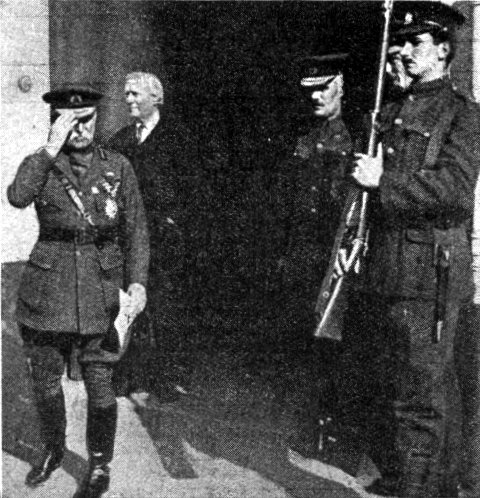 Commander of the British Expeditionary Force, Field Marshall Sir John French, and British Prime Minister, Herbert Asquith, at BEF Headquarters, 1915. Photo from The War Illustrated, 26 June 1915. Caption reads: :Mr. Asquith leaving the British General Headquarters with Sir John French, on the occasion of his recent historic visit to the actual scene of operation of the British Army in the field.